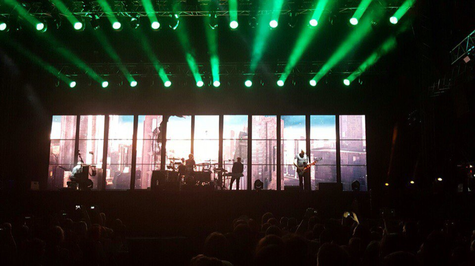 Muse at UPark Festival 2016 during The Globalist